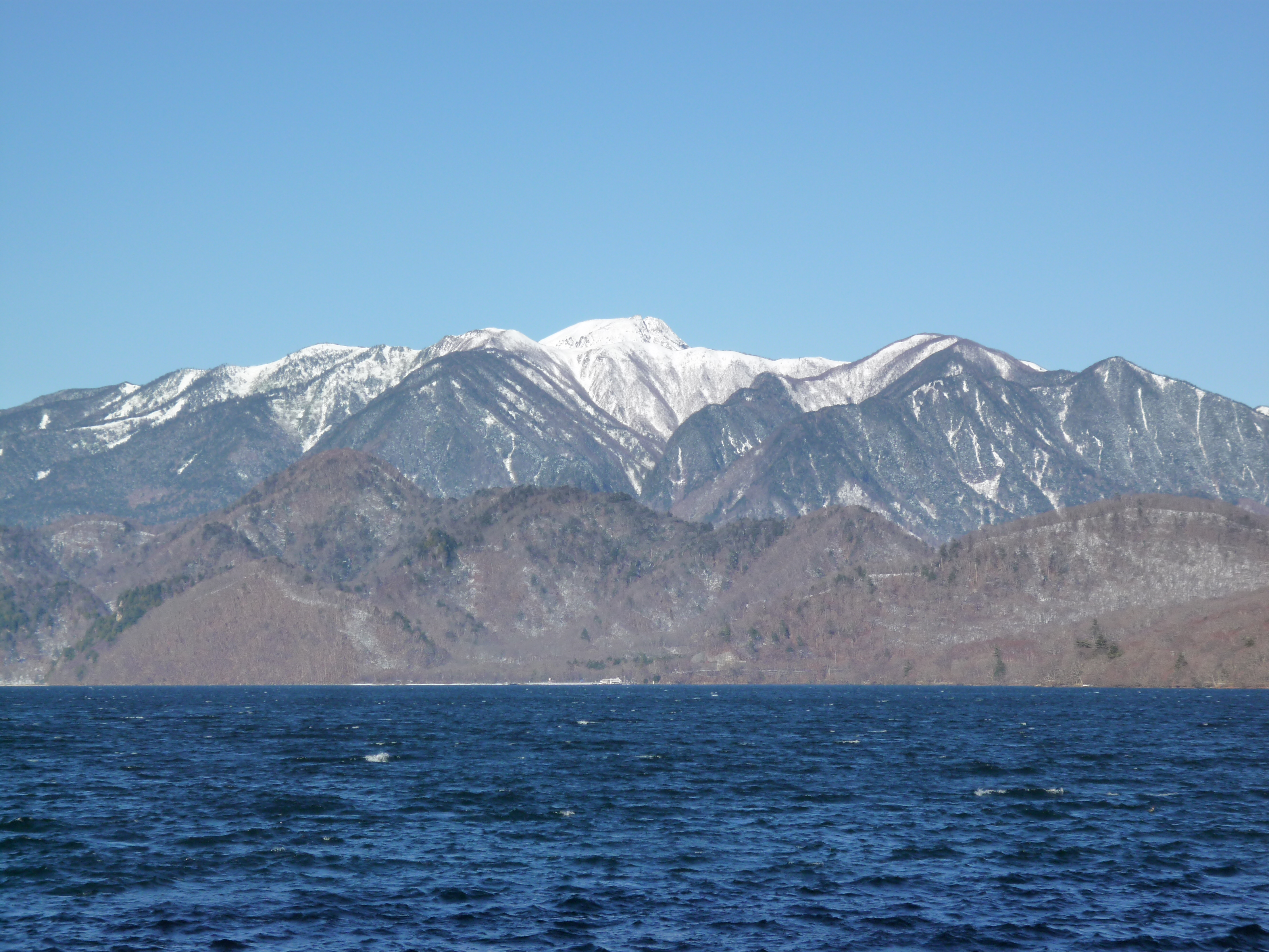 Mount Nikkō-Shirane above Lake Chūzenji. A view from Nikkō, Tochigi.